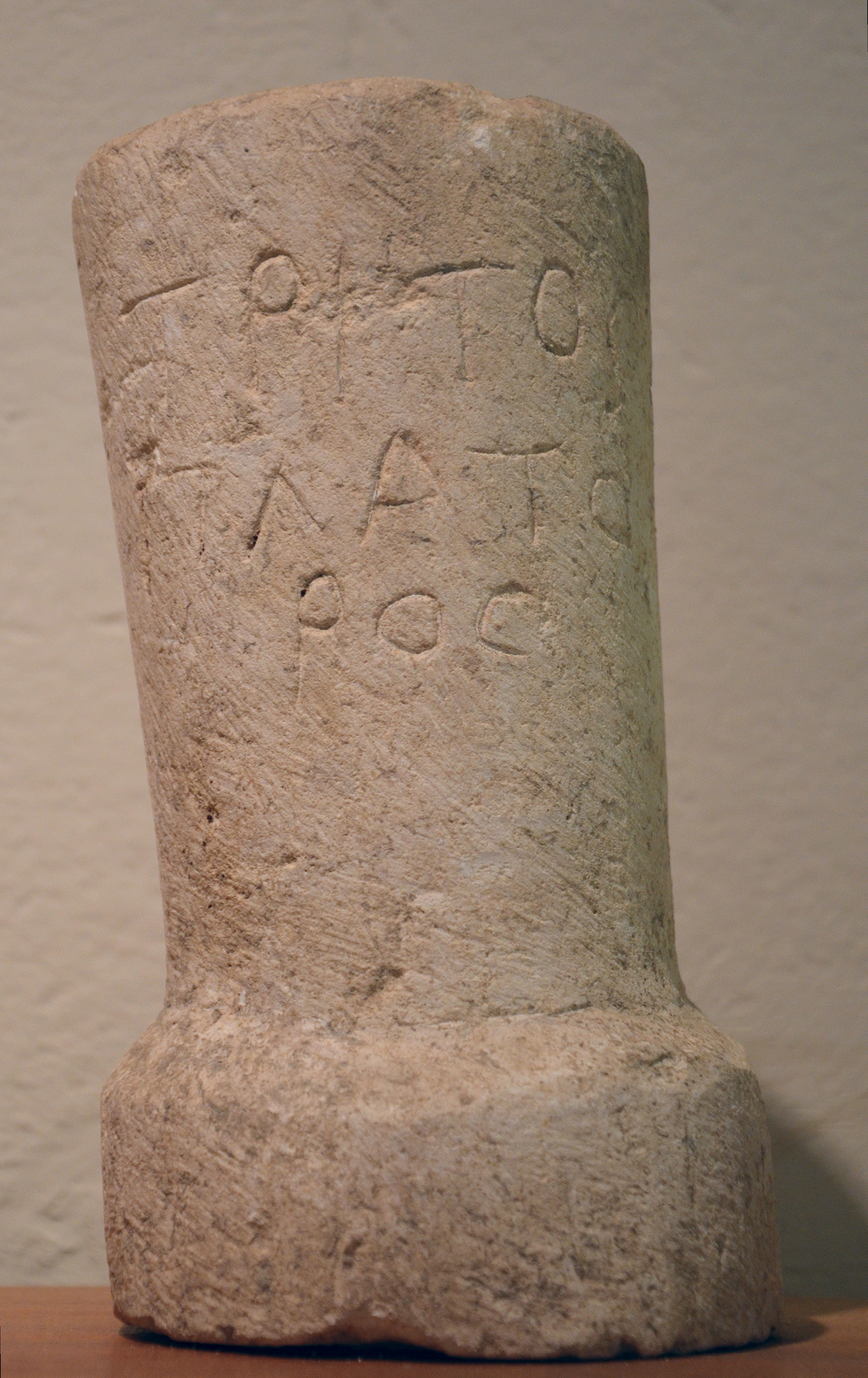 Tombstone with an Illyrian name, 2nd century BC, Apollonia, Albania